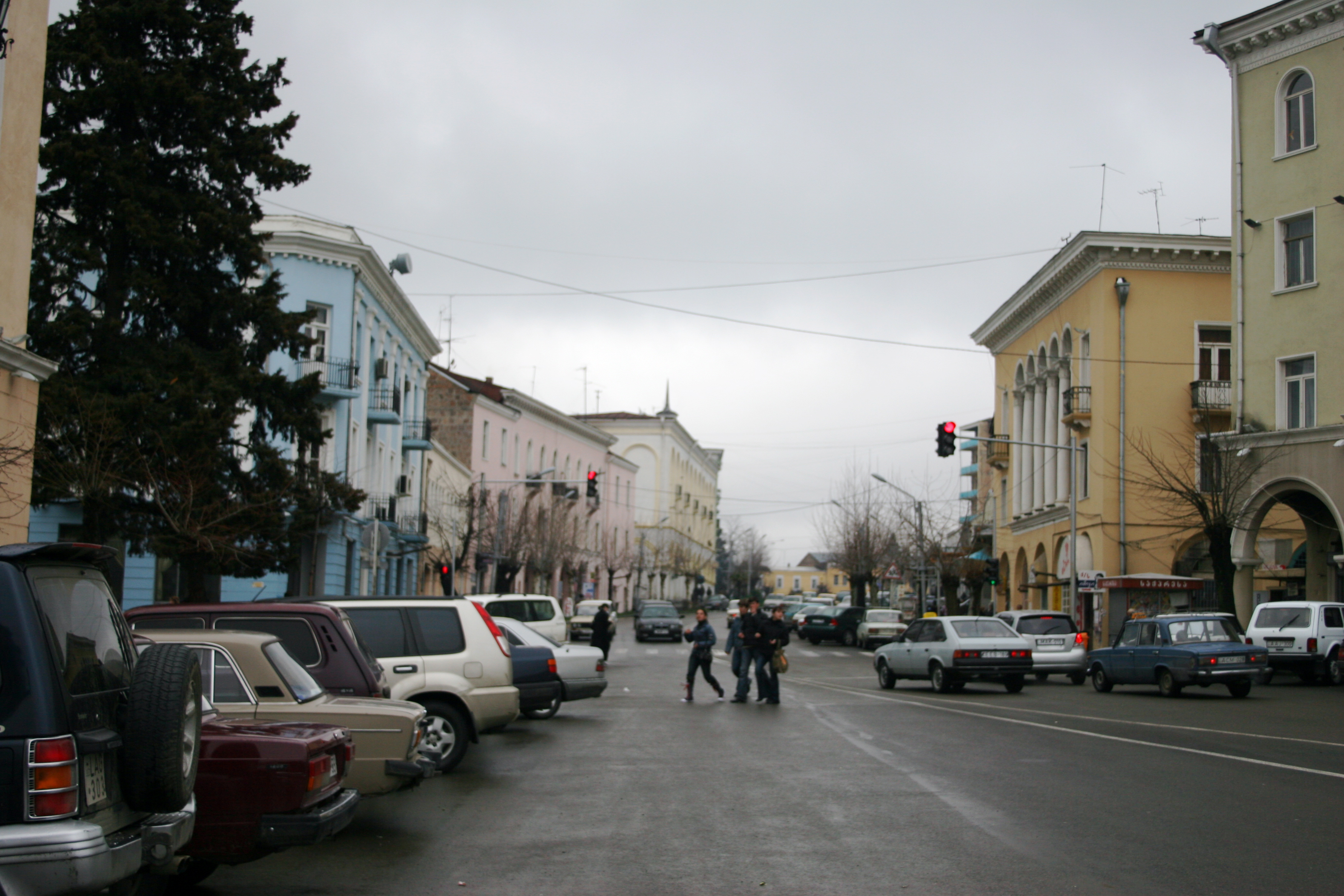 One of Telavi's main thoroughfares as seen from the town hall square.